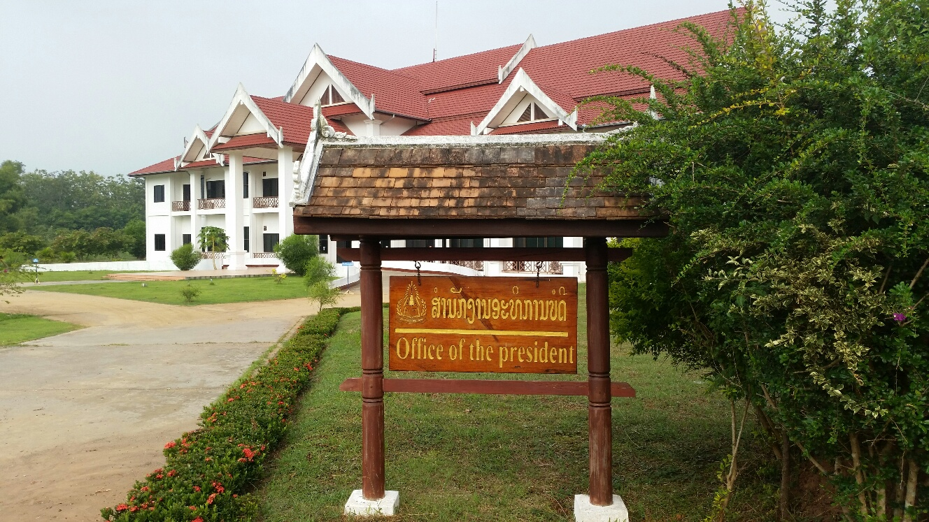 SU's main administration building